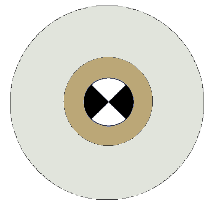 Shield pattern of the Equites sagittarii cordueni, listed as vexillationes comitatenses in the Magister Equitum's cavalry roster.